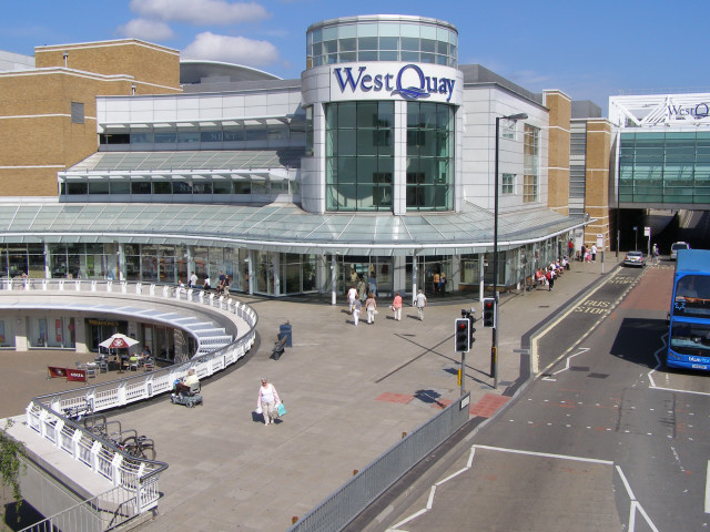 Arundel Circus entrance to the WestQuay shopping centre. The area outside this corner of the WestQuay shopping centre has been named Arundel Circus, presumably after the Arundel Tower of the nearby medieval city walls. The cylindrical tower on the corner of the shopping mall is presumably a modern reflection of the medieval Arundel Tower. This view is from the footbridge over Portland Terrace road, which makes up part of the 'walk the city walls' route, and has recently been re-opened to the public.